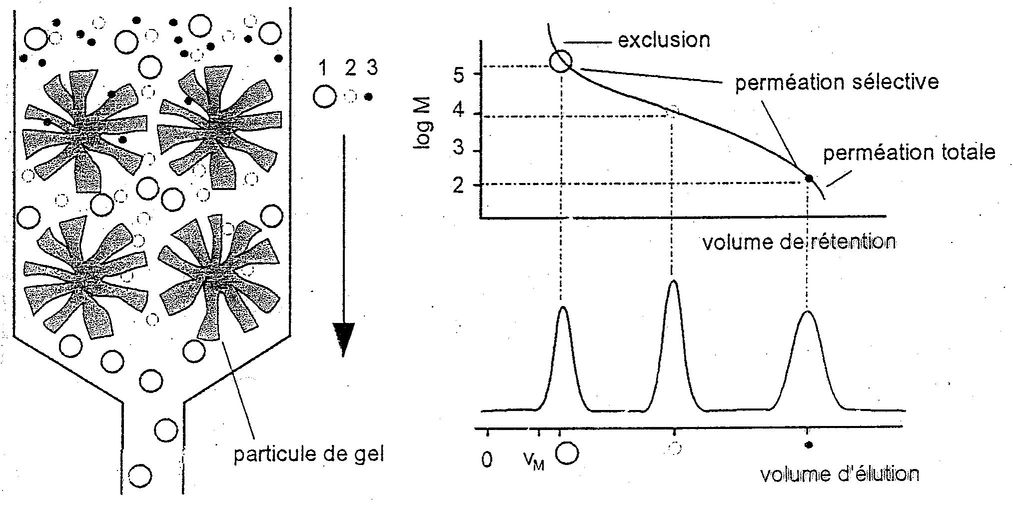 Size exclusion chromatography scheme